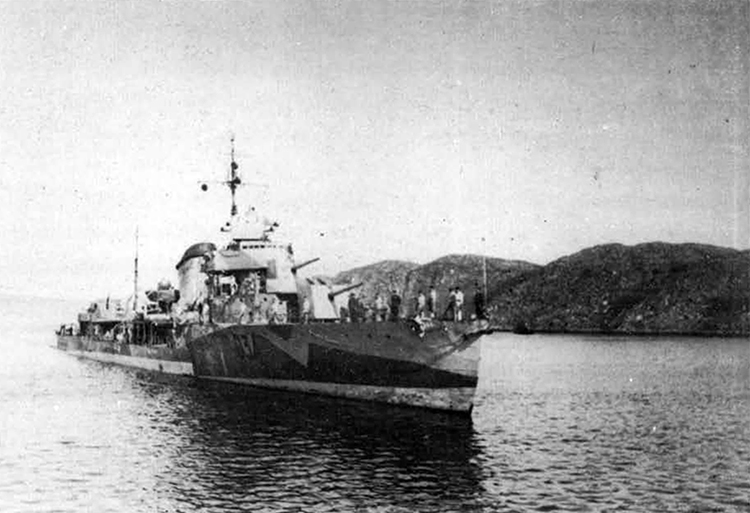 Unidentified Gnevny-class destroyer of the Northern Fleet